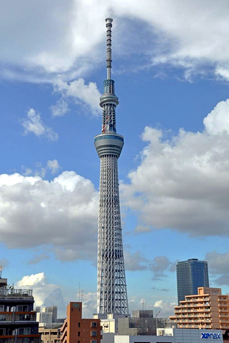 Tokyo Sky Tree under close to completion